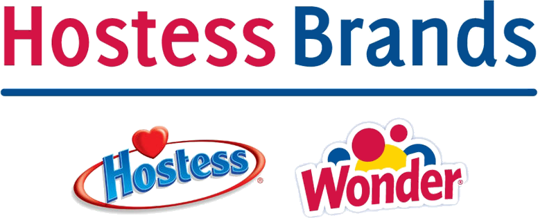 logo for Hostess Brands, Inc. (2009-2012)